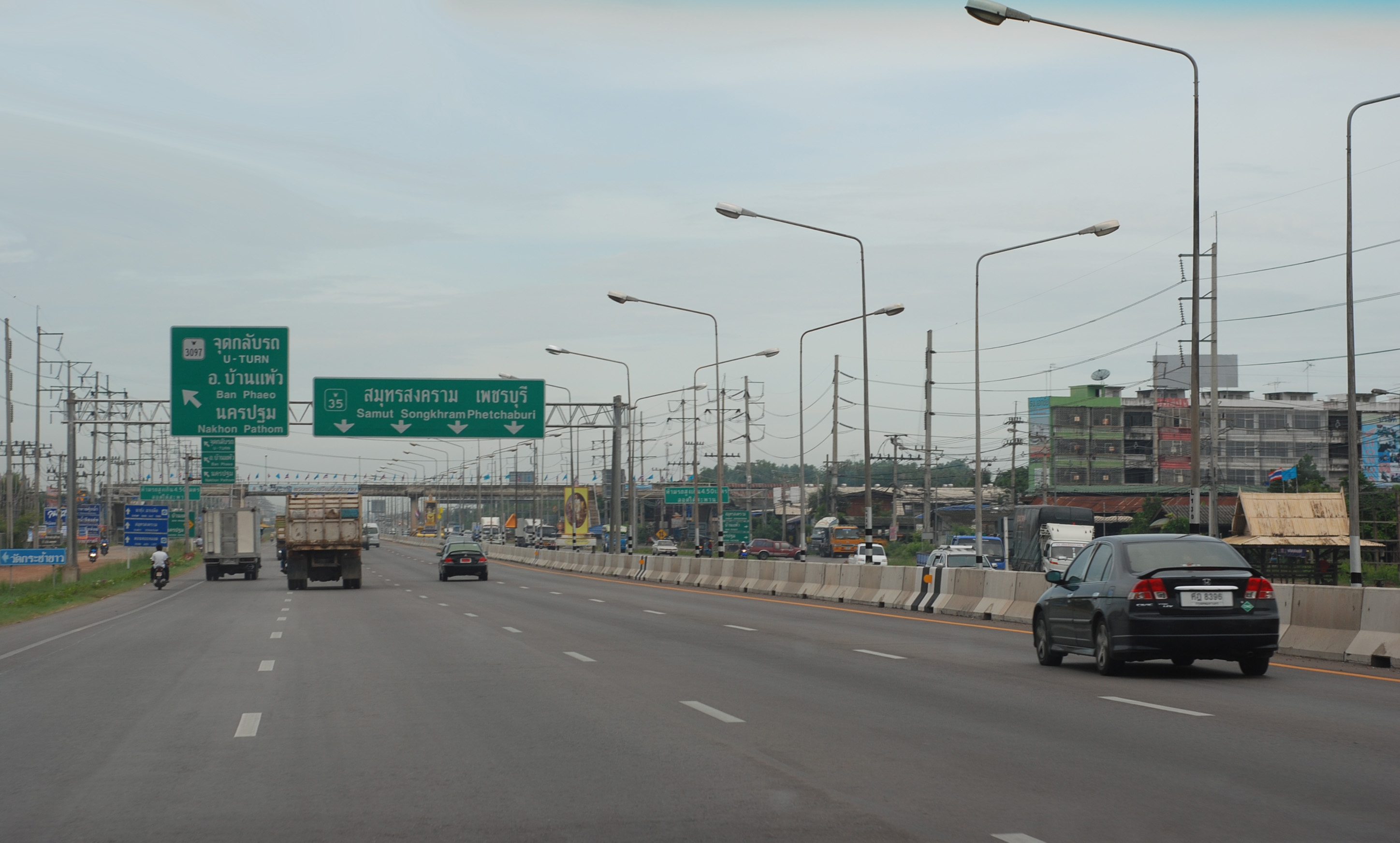 Rama II road (Thai Highway 35) in Thailand